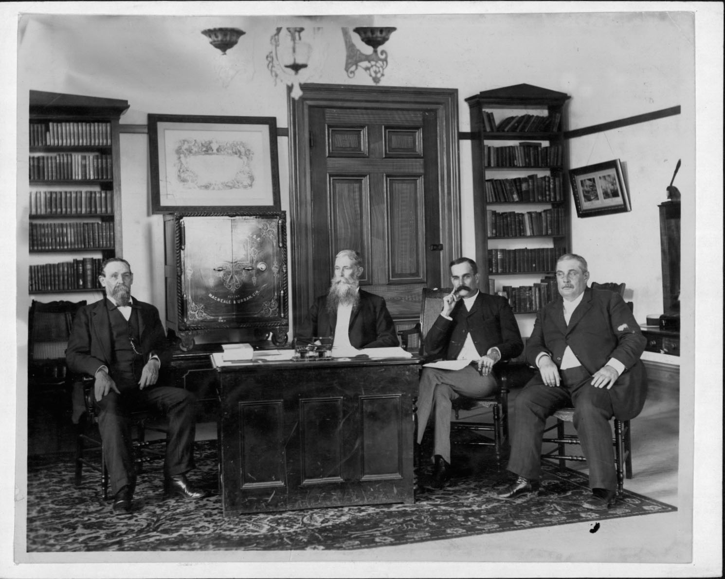 Executive Council of the Provisional Government of Hawaii (left to right): James A. King, Sanford B. Dole, William Owen Smith and Peter Cushman Jones.